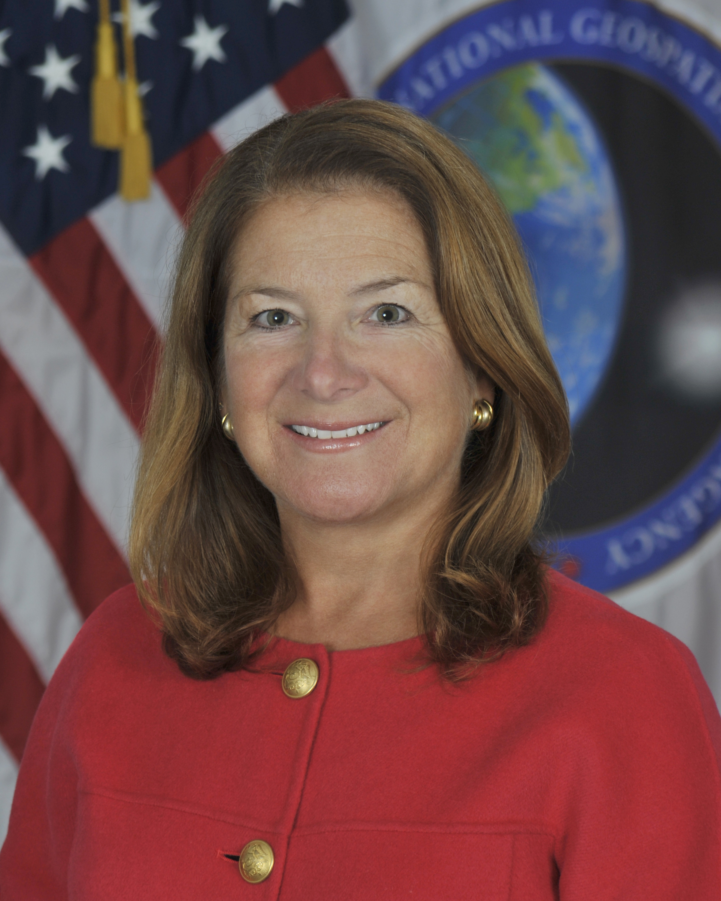 Photograph of Letitia Long, as the director of the US National Geospatial-Intelligence Agency.